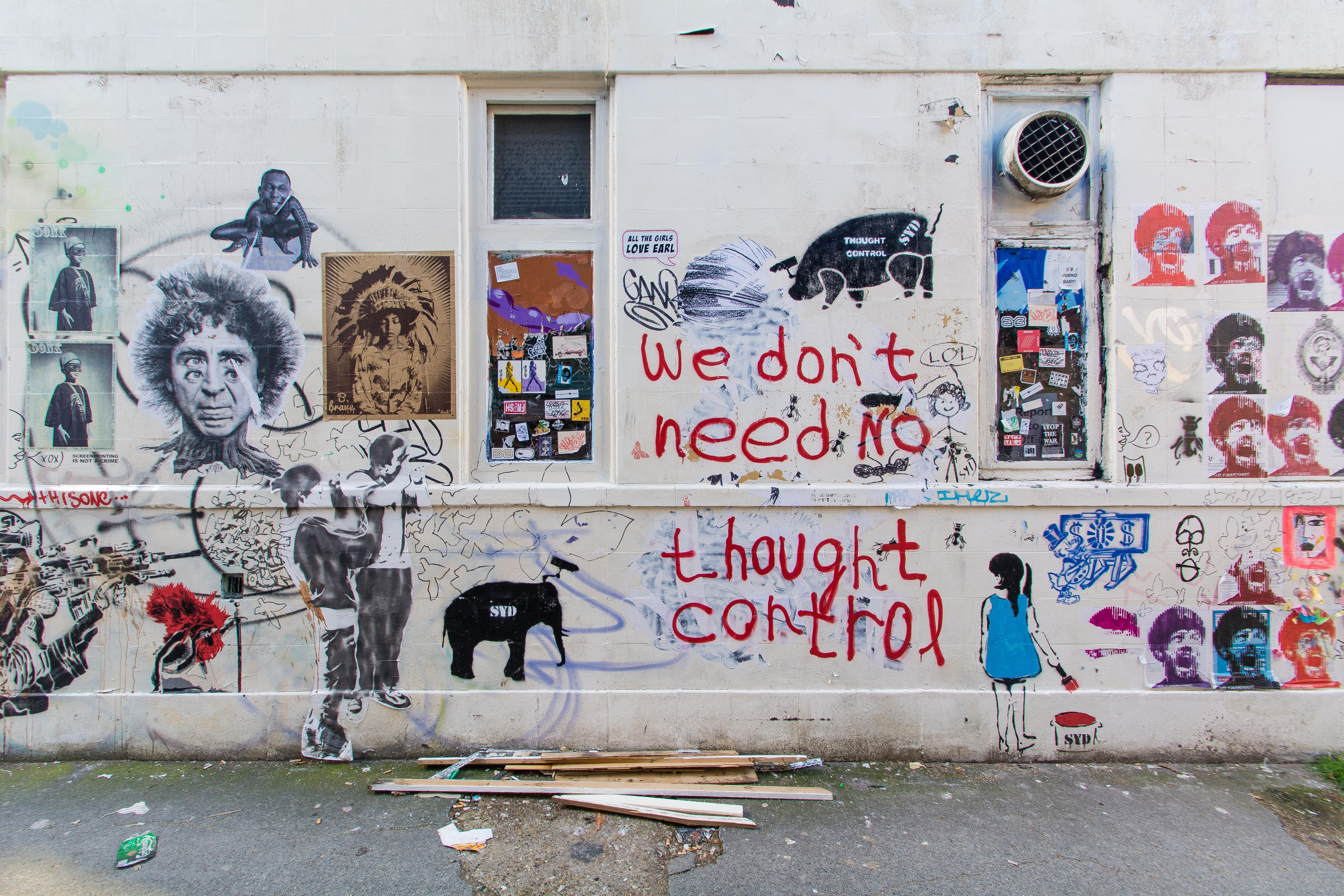 Car park off lower Brick Lane